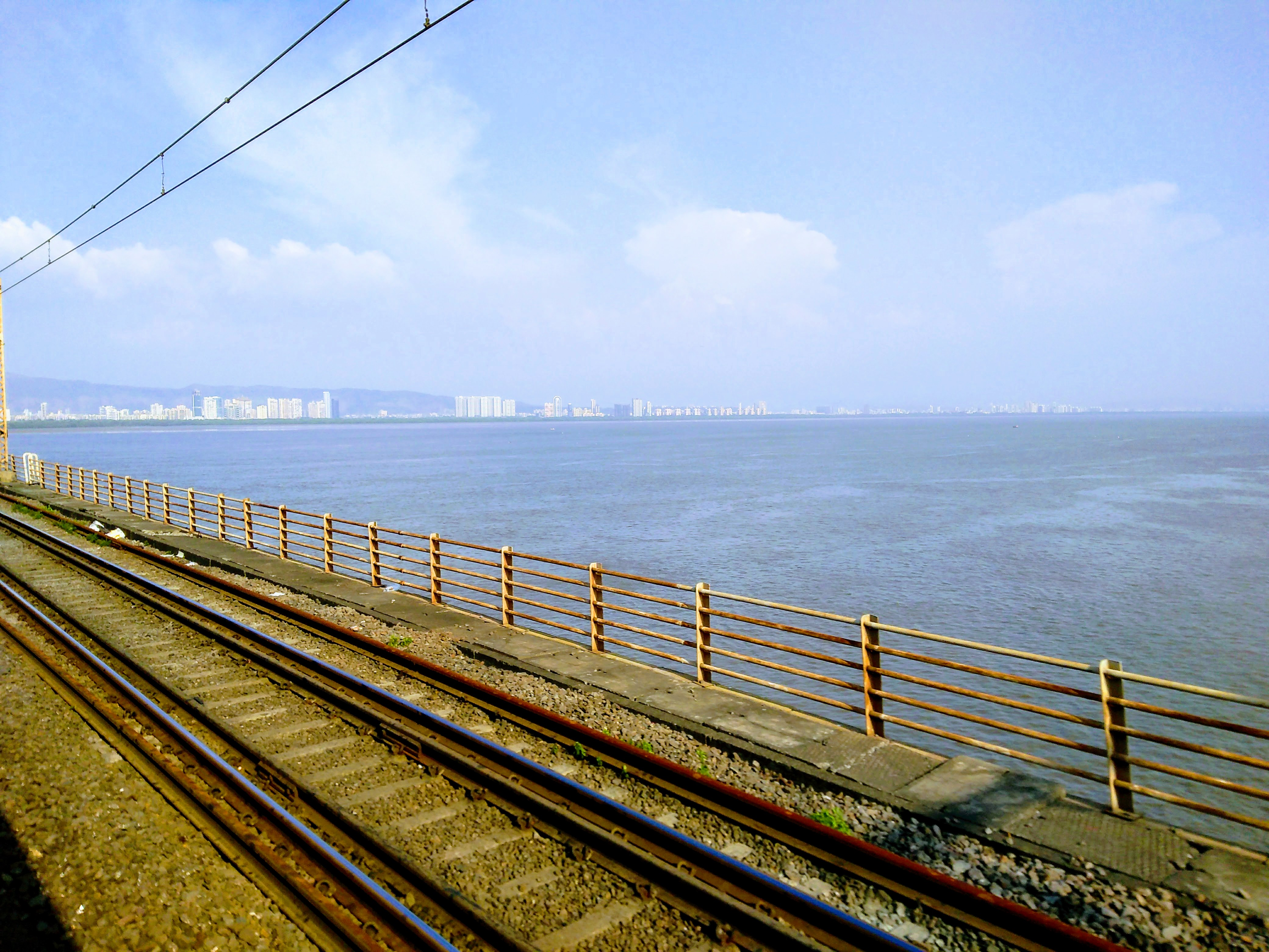 View of Navi Mumbai skyline from the railway bridge